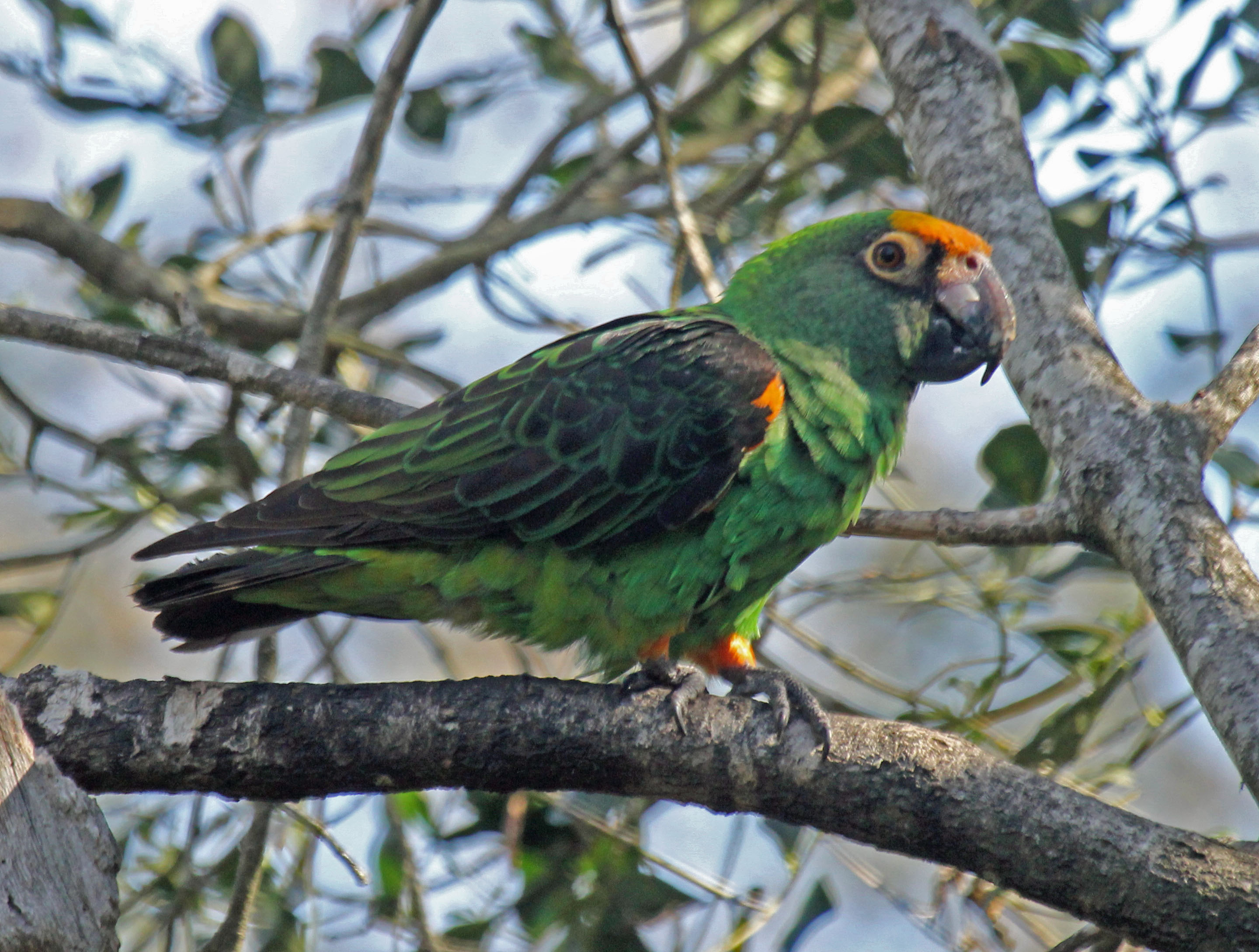 A Red-fronted Parrot at Birds of Eden, South Africa.